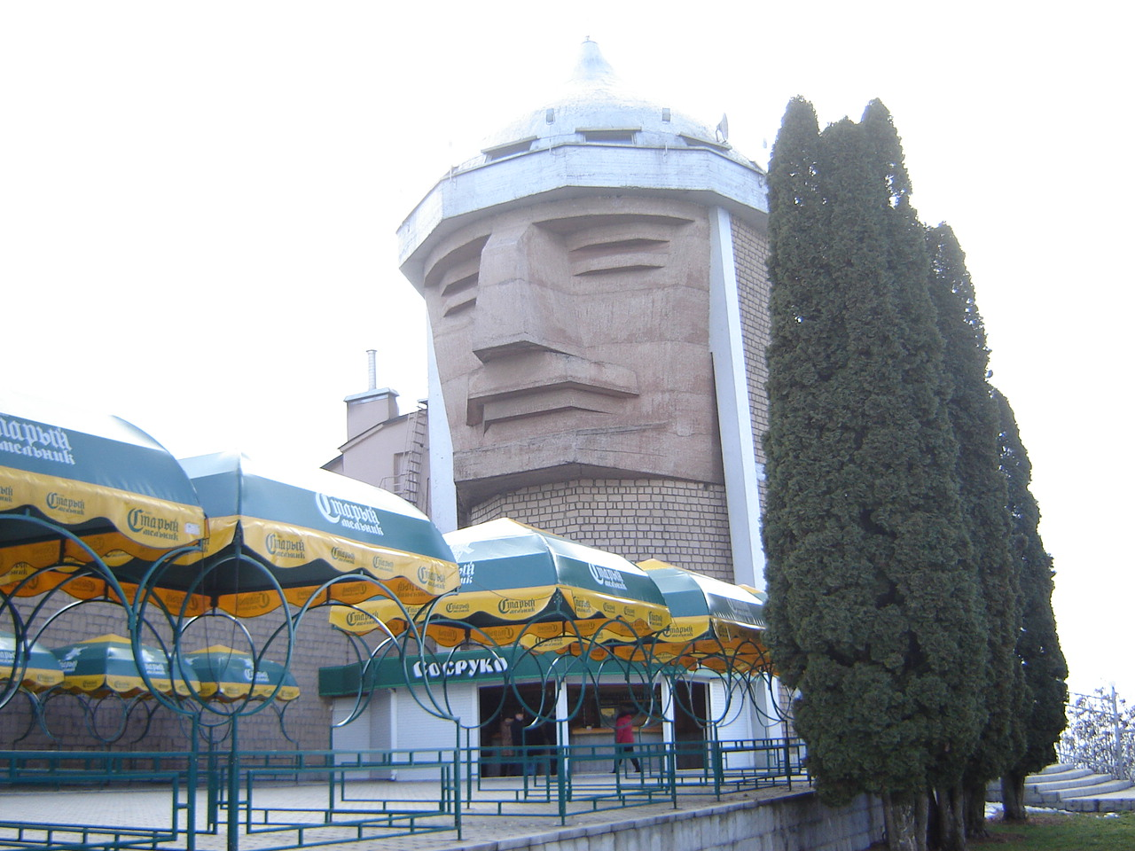 Sosruko